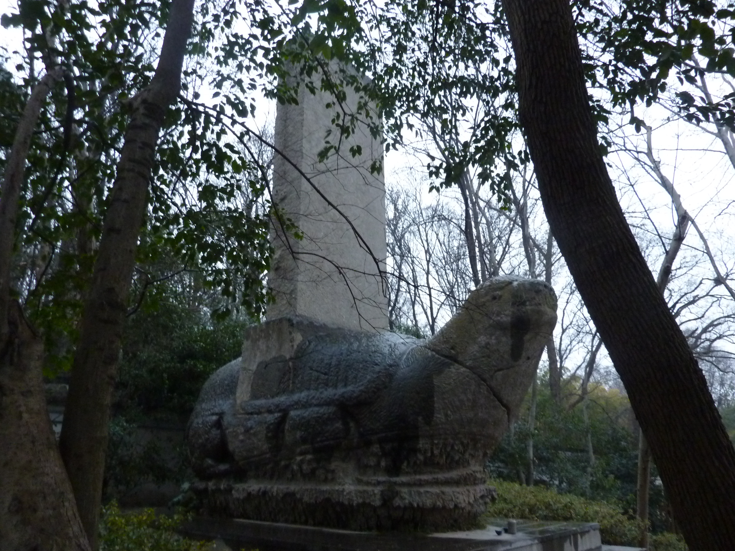 The unifinished bixi turtle with a cracked neck, carrying a blank stele. It sits in the Hong Lou Yiwen Yuan (Red Mansion Craft and Culture Park), to the east of Ming Xiaoling proper.